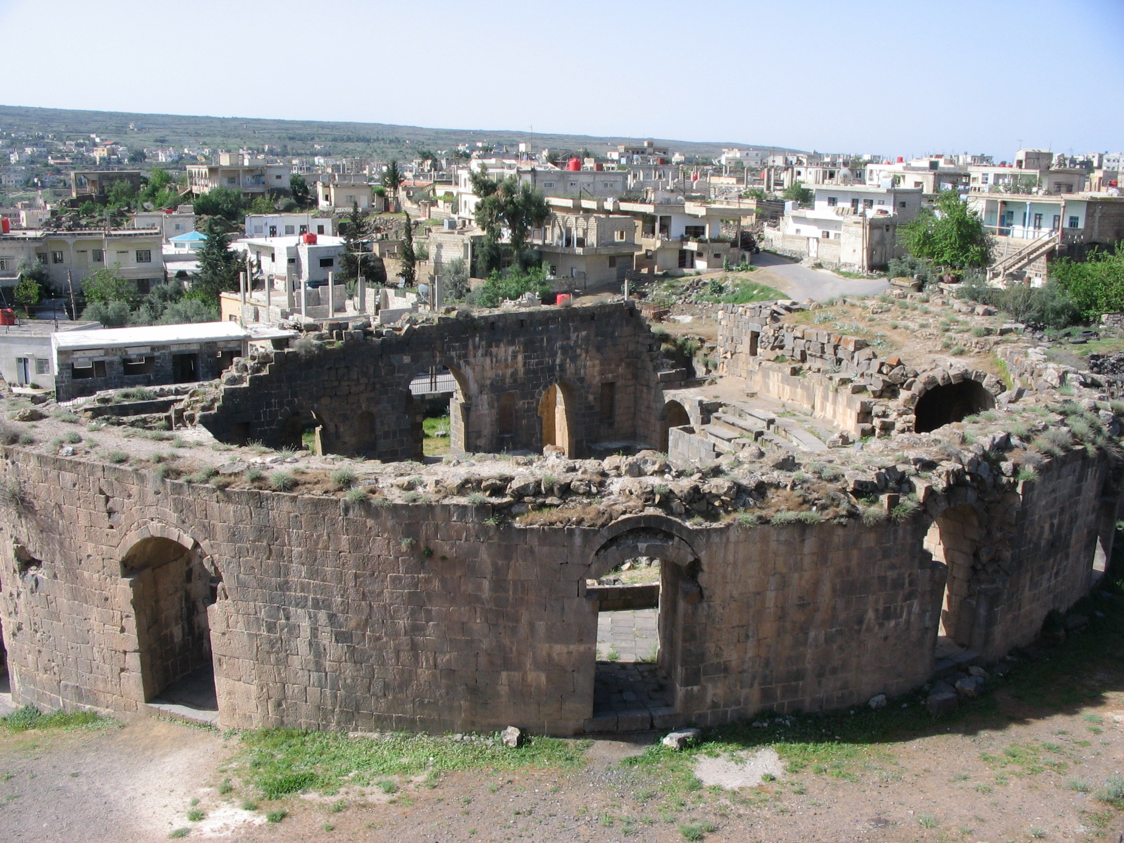 Roman theater, Philippopolis in 2006